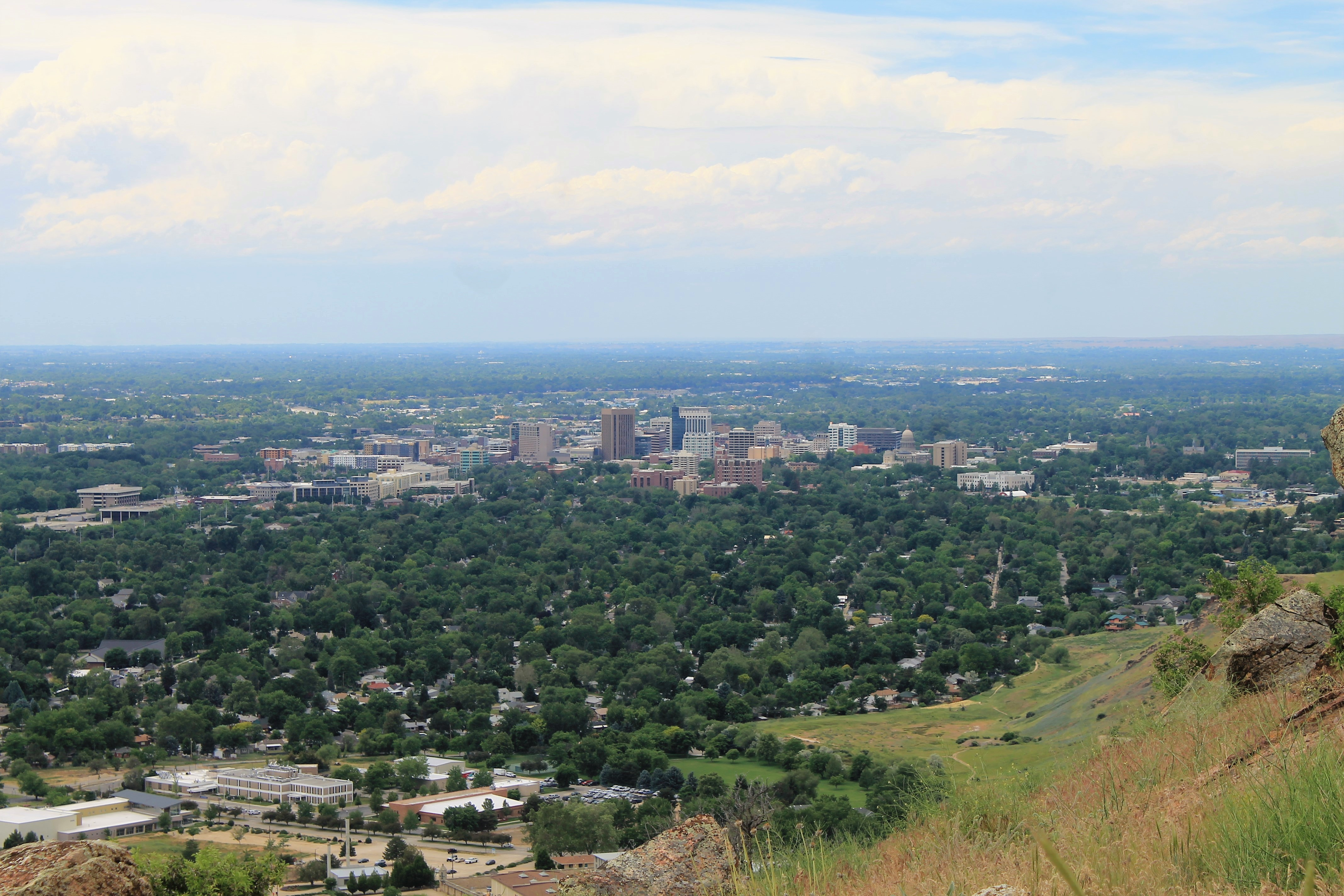 This is the view of Boise as seen from Table Rock, June, 2017.